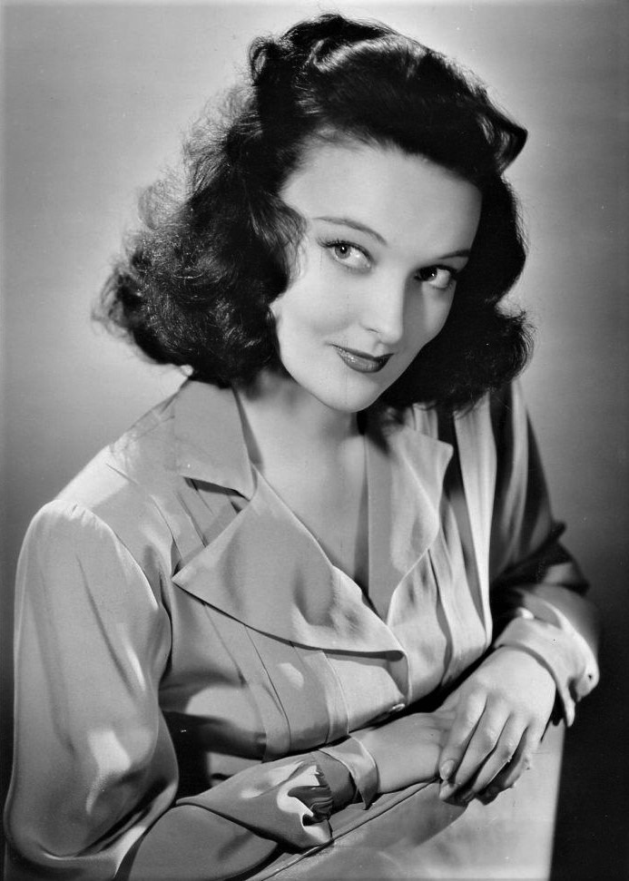 American actress Karin Booth (aka Katherine Booth) - publicity still (cropped)